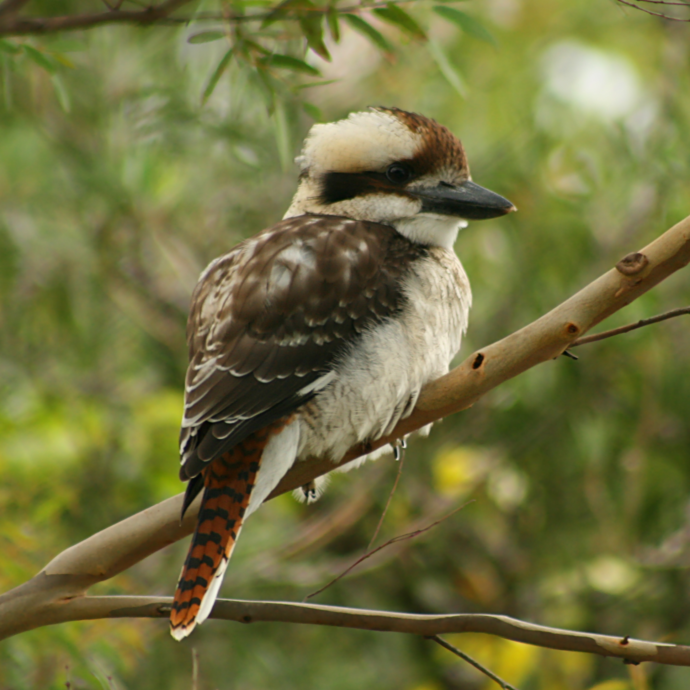 A juvenile Laughing Kookaburra (Dacelo novaeguineae) in suburban Sydney. Compared to adults, juveniles have shorter bills with a dark underside, and a pronounced white edging to the feathers on the mantle and wings.